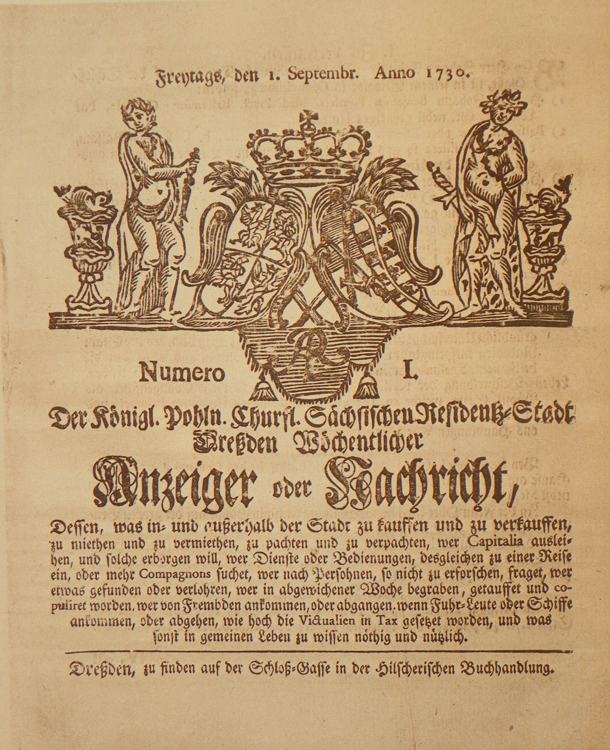 First Issue of Dresden Anzeiger 1730